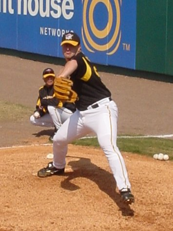 Matt Capps Photographed by B. Cheuvront, Spring Training 2006 in Bradenton Florida. 03:41, 26 April 2006 . . ImmortalGoddezz . . 355×474 (36 KB)